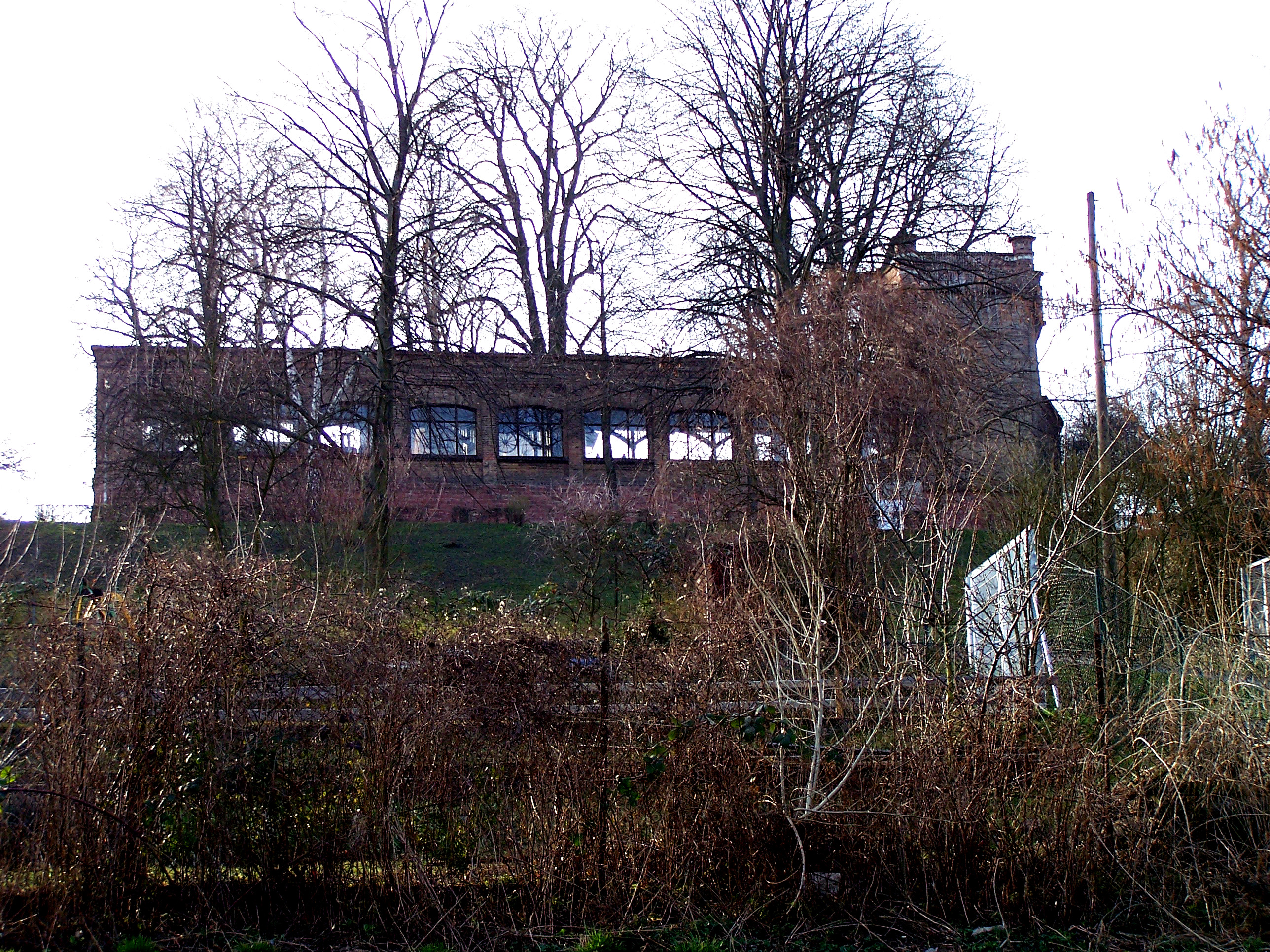 Ratskeller at the Bornheimer Hang in Frankfurt am Main-Bornheim, view from east, in März 2011